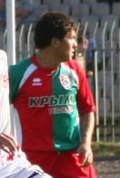 Serhiy Kucherenko